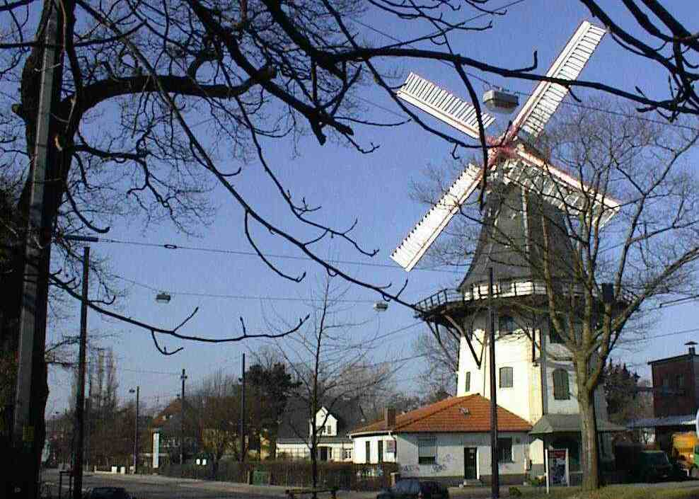 Mill in Horn-Lehe in Bremen, Germany